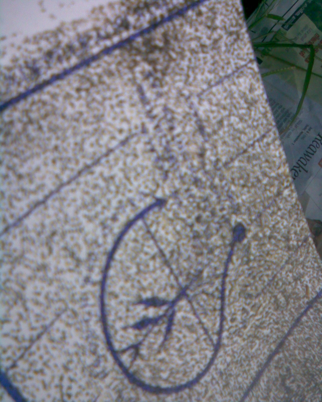 This media file is uploaded with Malayalam loves Wikimedia event - 2.